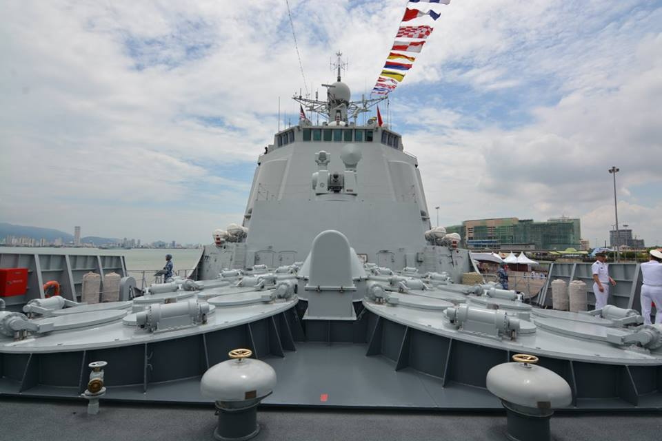 Frigate PLANS Changchun (150) in the Penang Strait, Penang, Malaysia. Visible far left is George Town; to the far right is Butterworth